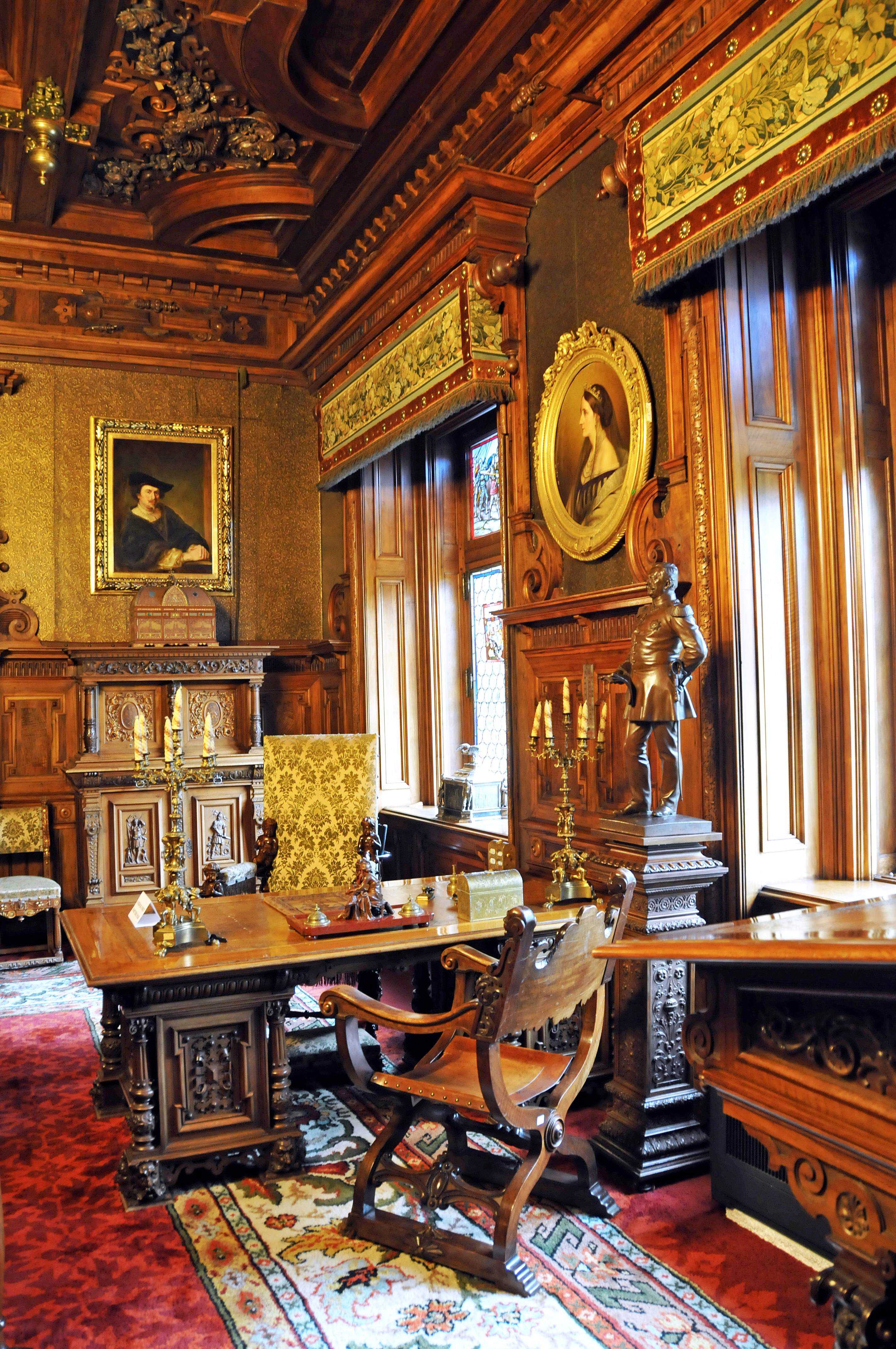 PLEASE, NO invitations or self promotions, THEY WILL BE DELETED. My photos are FREE to use, just give me credit and it would be nice if you let me know, thanks. The working room and desk of King Carol I of Romania.